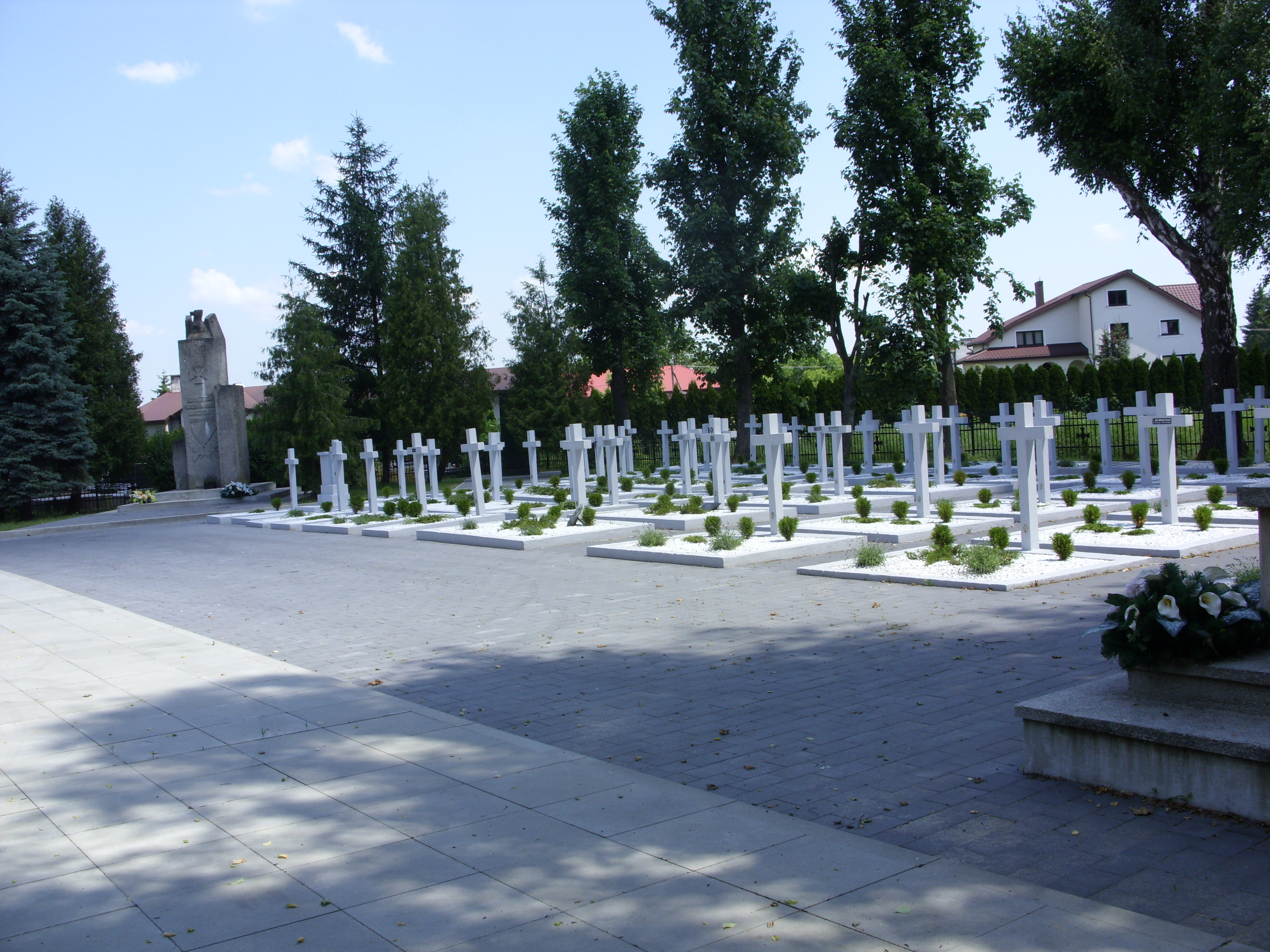 War cemetery of 1939 from World War II in Tomaszów Lubelski. 1939 Polish Defense War against Nazi Germany.